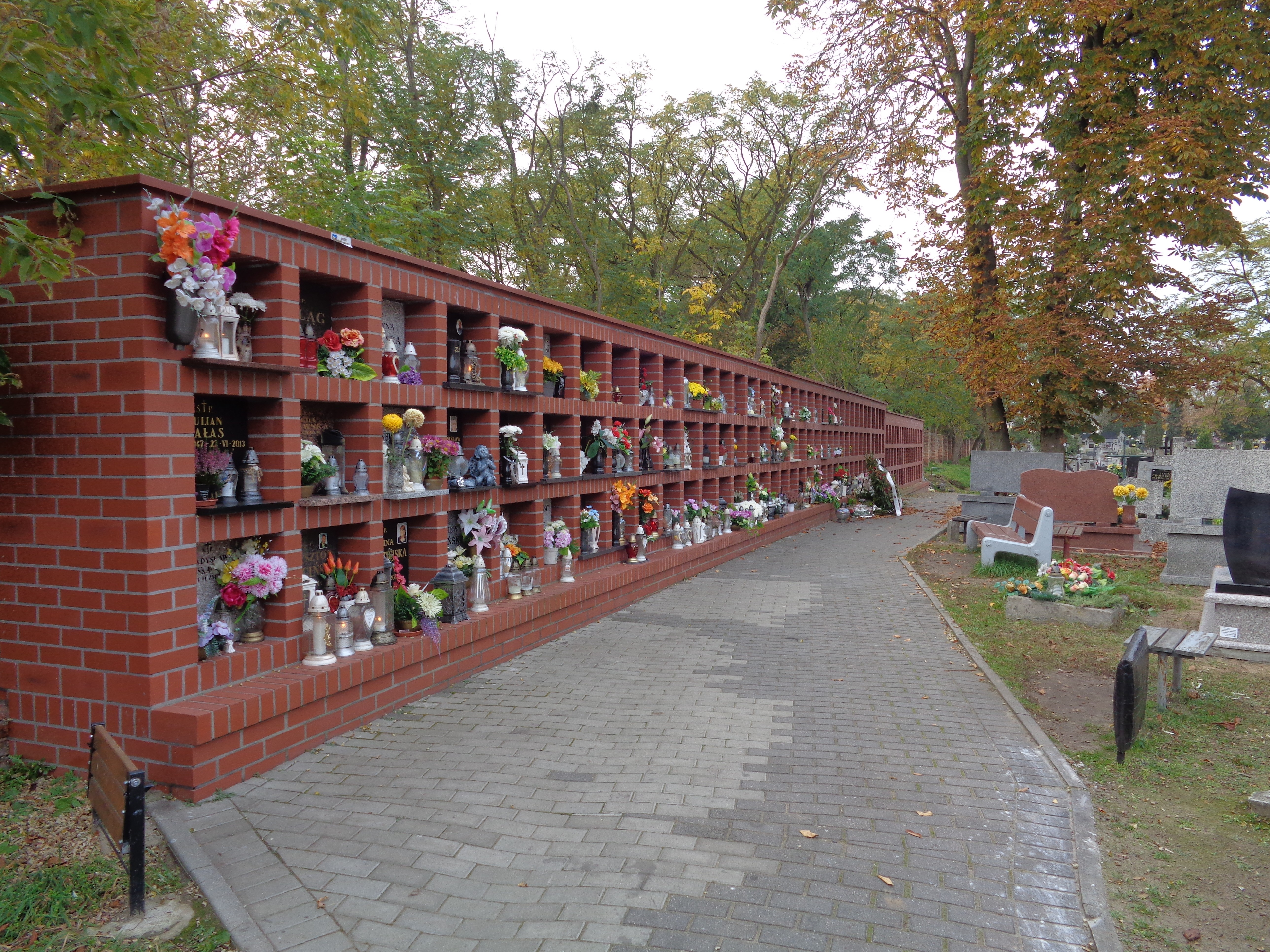 New columbarium (built in 2015 year) on communal cemetery in Włocławek.